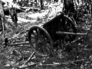 Imperial Japanese Army field gun captured by U.S. Marine 2nd Raider Battalion on Guadalcanal in November 1942